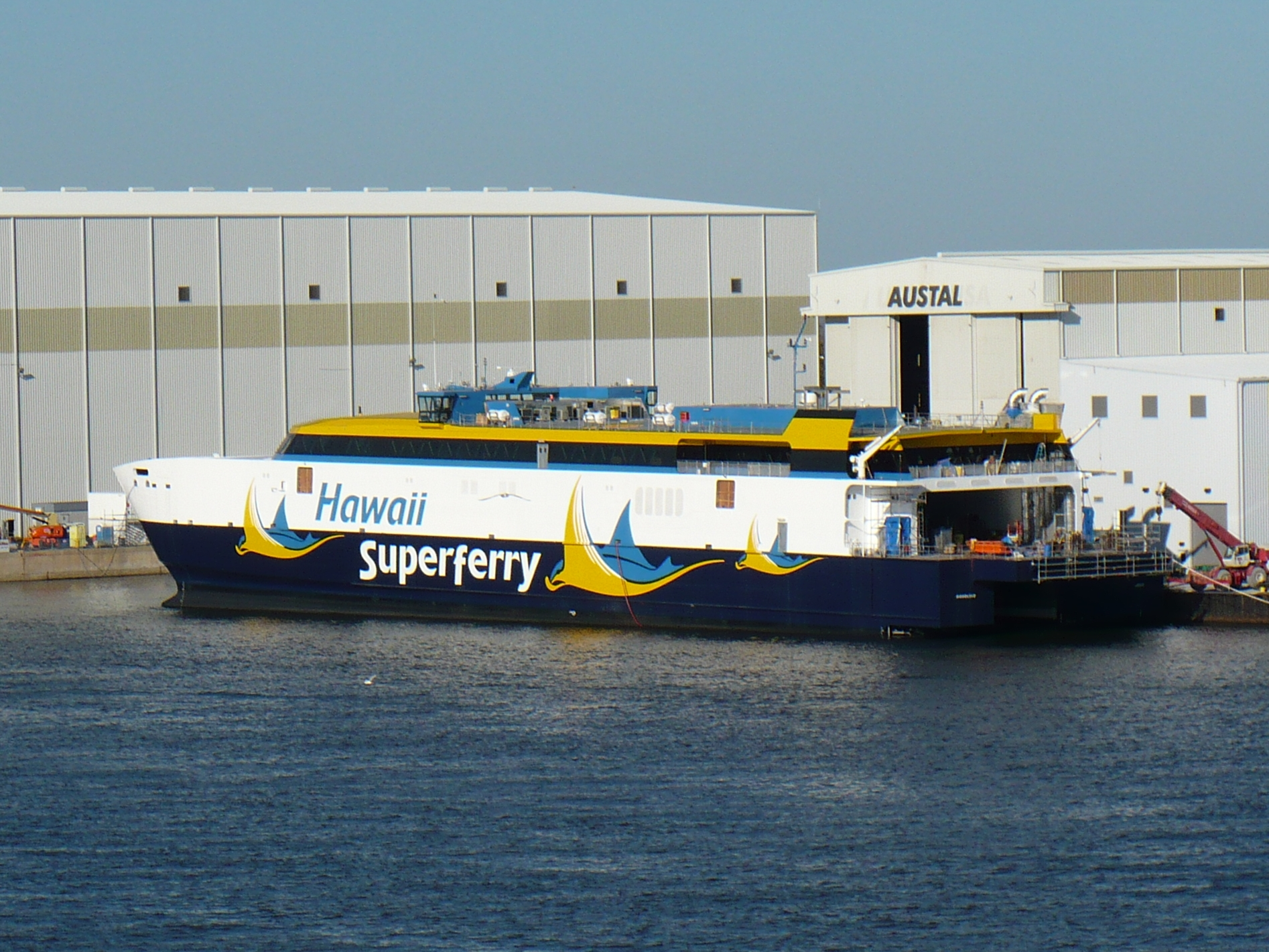 View of the second Hawaii Superferry (currently designated as Hull 616) at the Austal USA shipyards along the Mobile River in Mobile, Alabama. The first Hawaii Superferry, the Alakai, has already been delivered and is in operation. Photo taken from the MS Holiday.